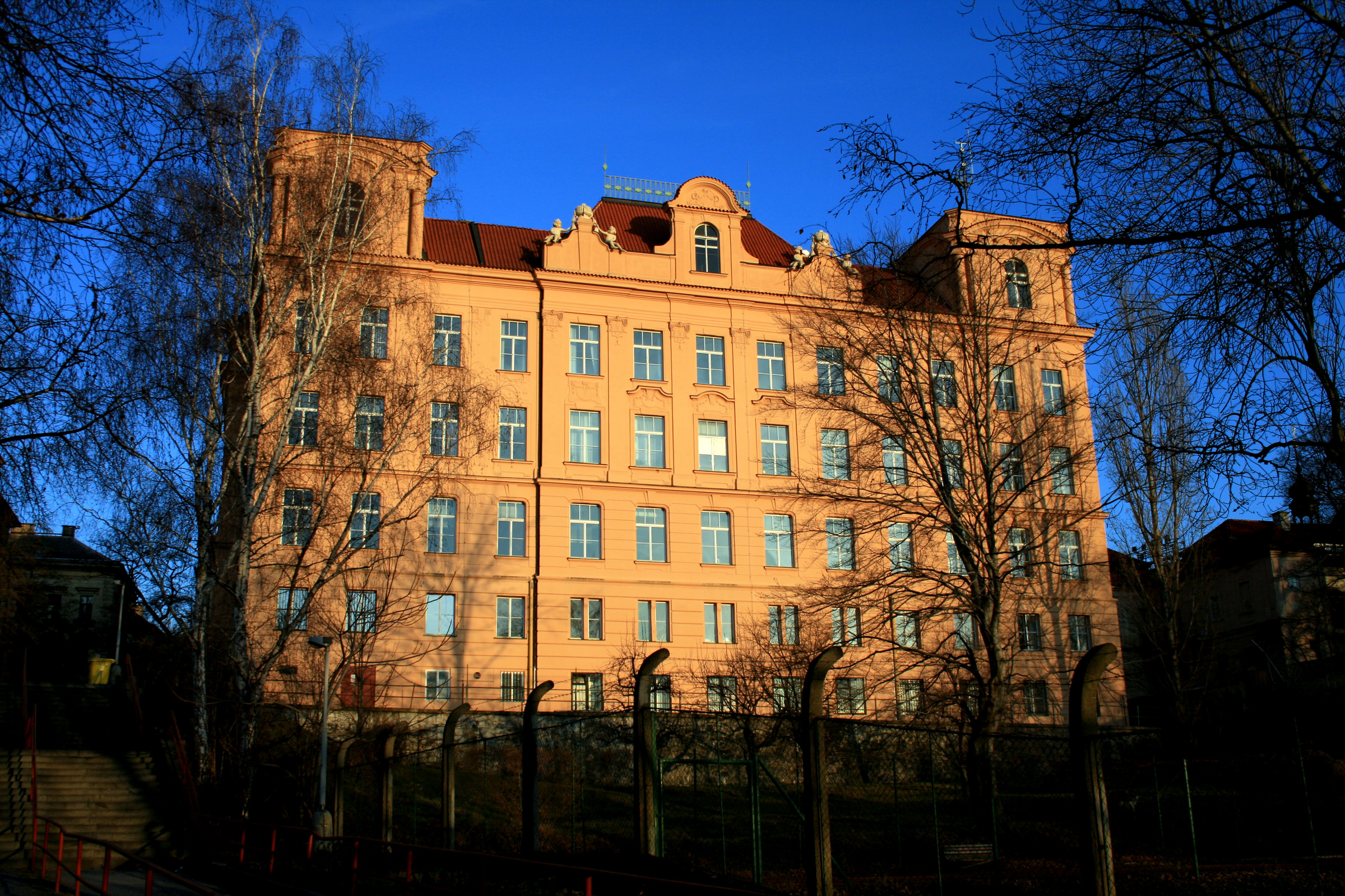 Building of physics, Faculty of Mathematics nad Physics, Charles University, Ke Karlovu 2027/3, Albertov 2027/8, Prague-New Town.